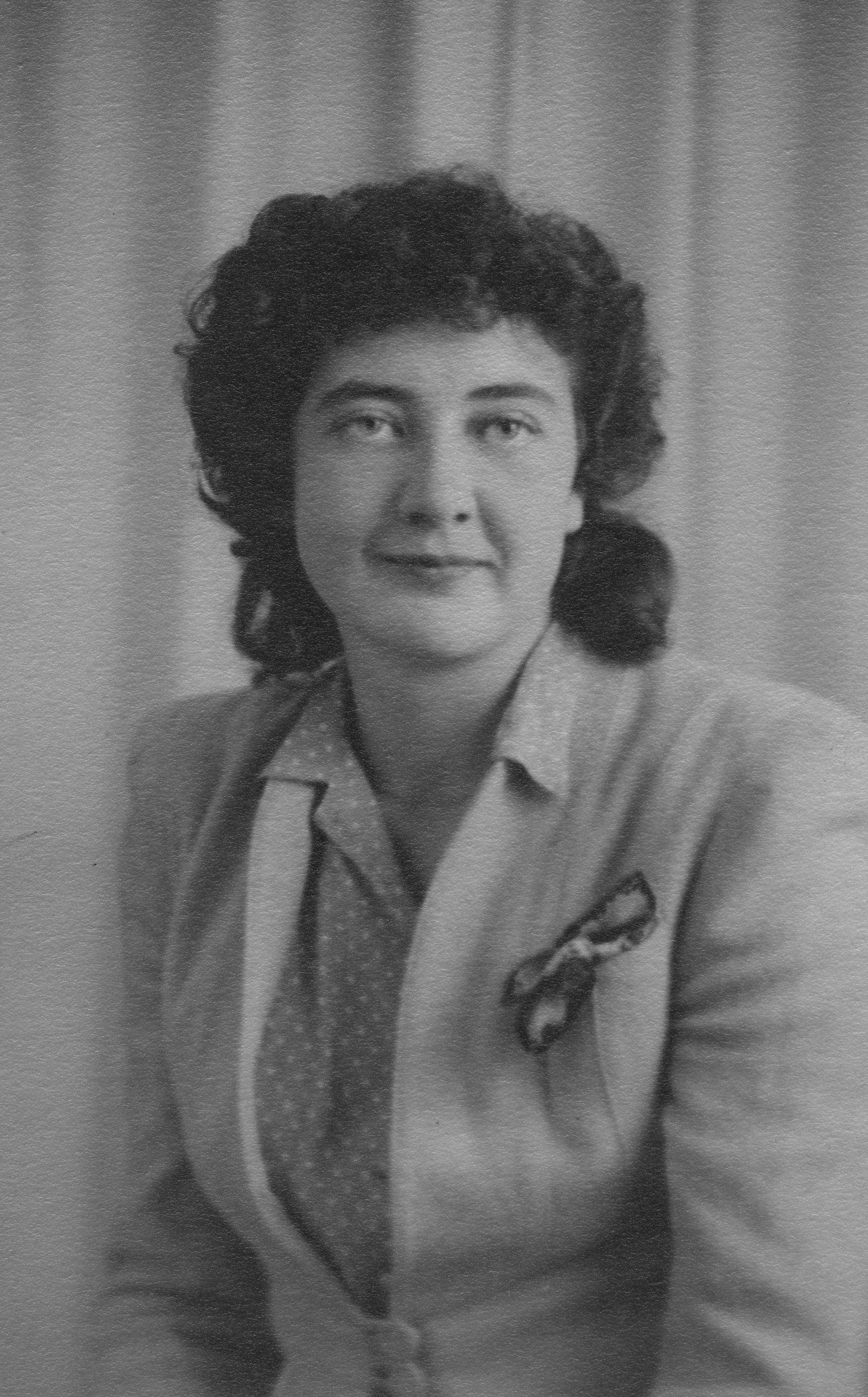 Vice President, Joan Travell IMAGELIBRARY/913 Persistent URL